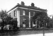 84 Plymouth Grove, Manchester, pictured in 1913, the year that the Gaskells' 63 year occupancy of the house ended, upon the death of Meta Gaskell.